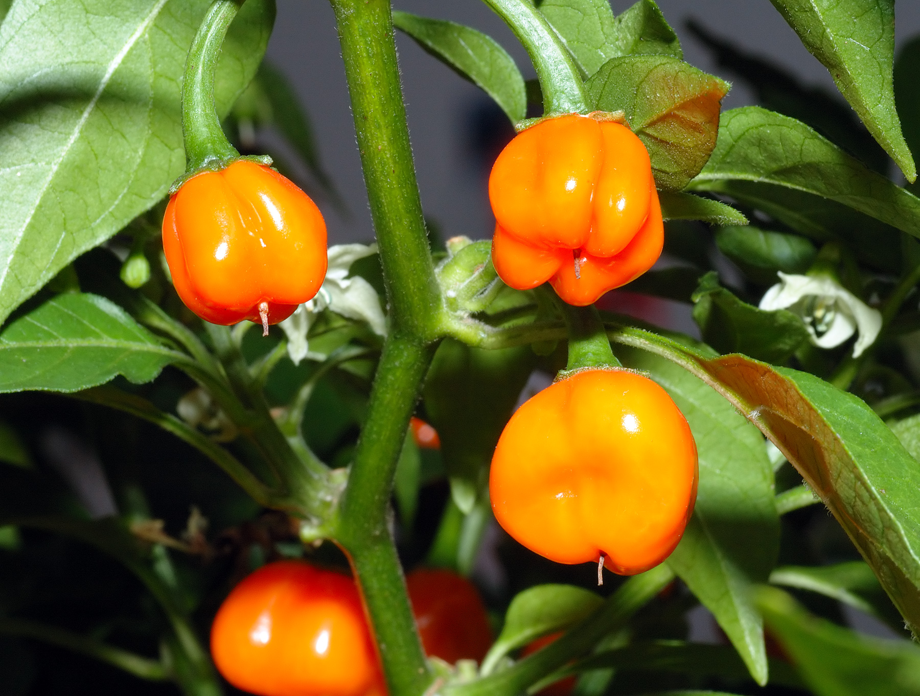 This image shows Habanero fruits (Capsicum chinense).